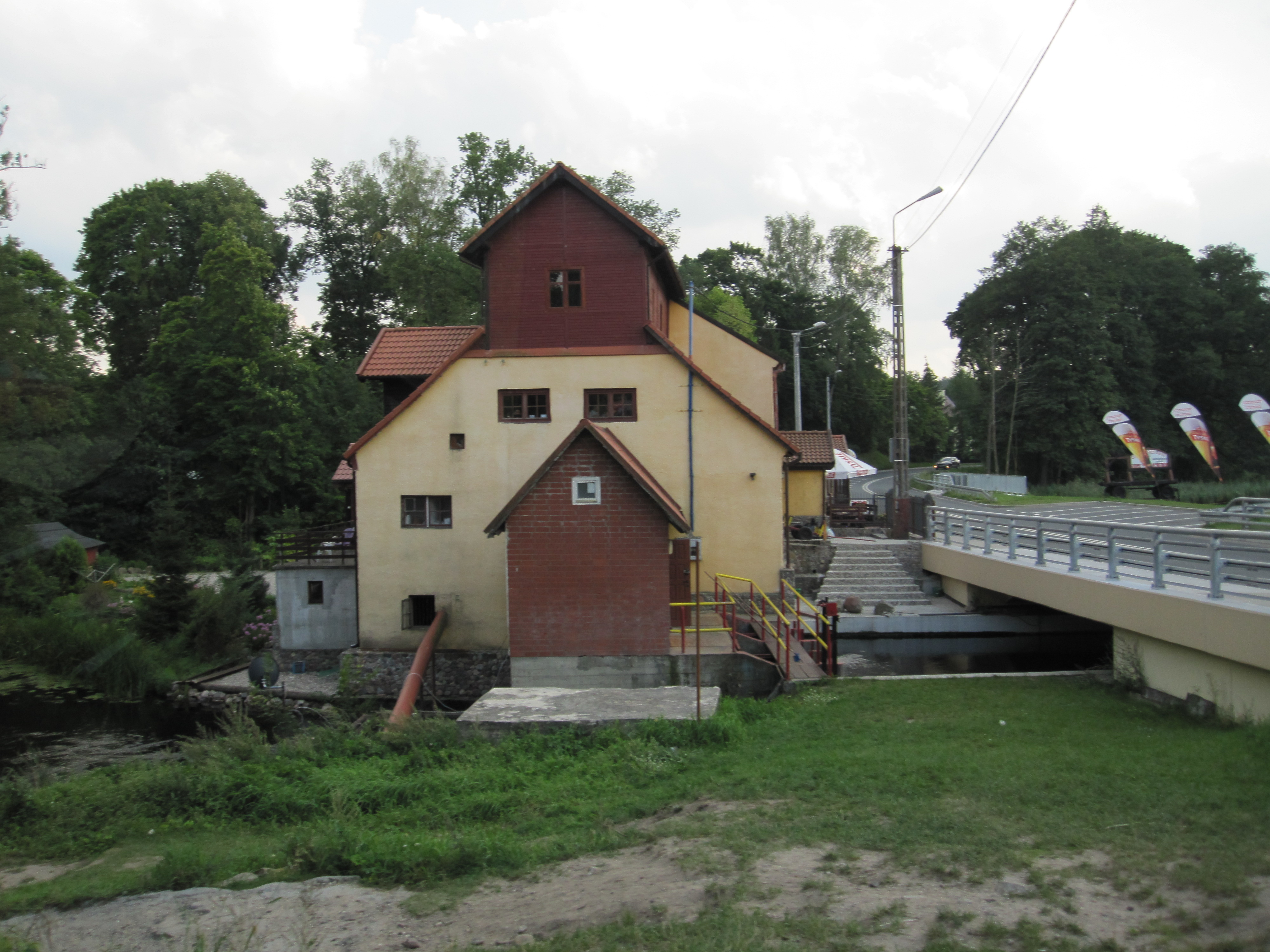 Mill in Babięta